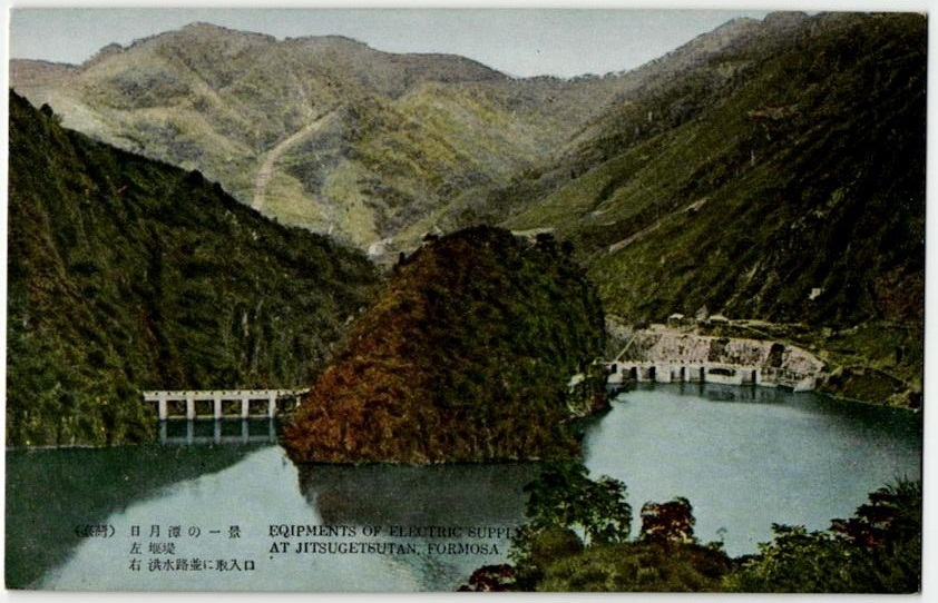 EQUIPMENTS OF ELECTRIC SUPPLY AT JITSUGETSUTAN, FORMOSA